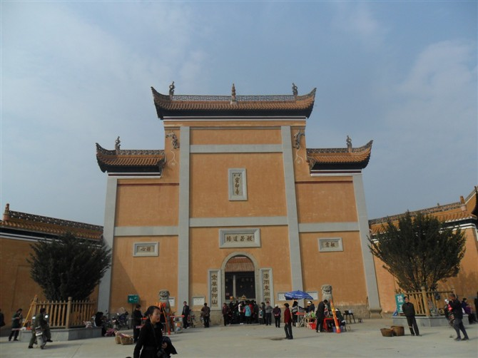 The shanmen at Miyin Temple, in Ningxiang County, Hunan province, China